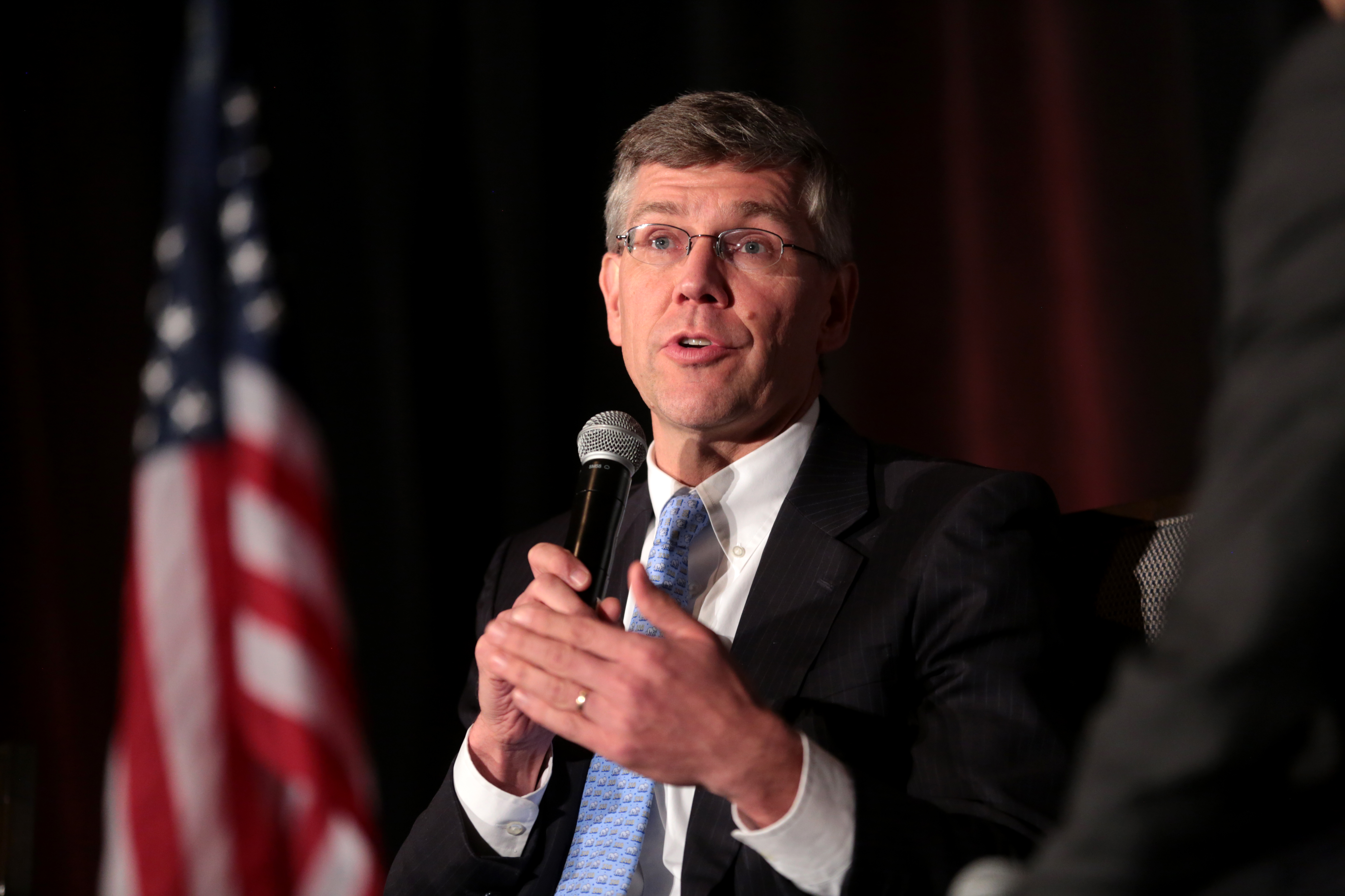 U.S. Congressman Erik Paulsen of Minnesota speaking at the Arizona Chamber of Commerce & Industry's 2018 Update from Capitol Hill at the Arizona Biltmore in Phoenix, Arizona.